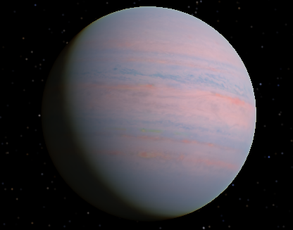 Gliese 176 b, hot "Super-Earth" with hazy and dense atmosphere alike Venus.